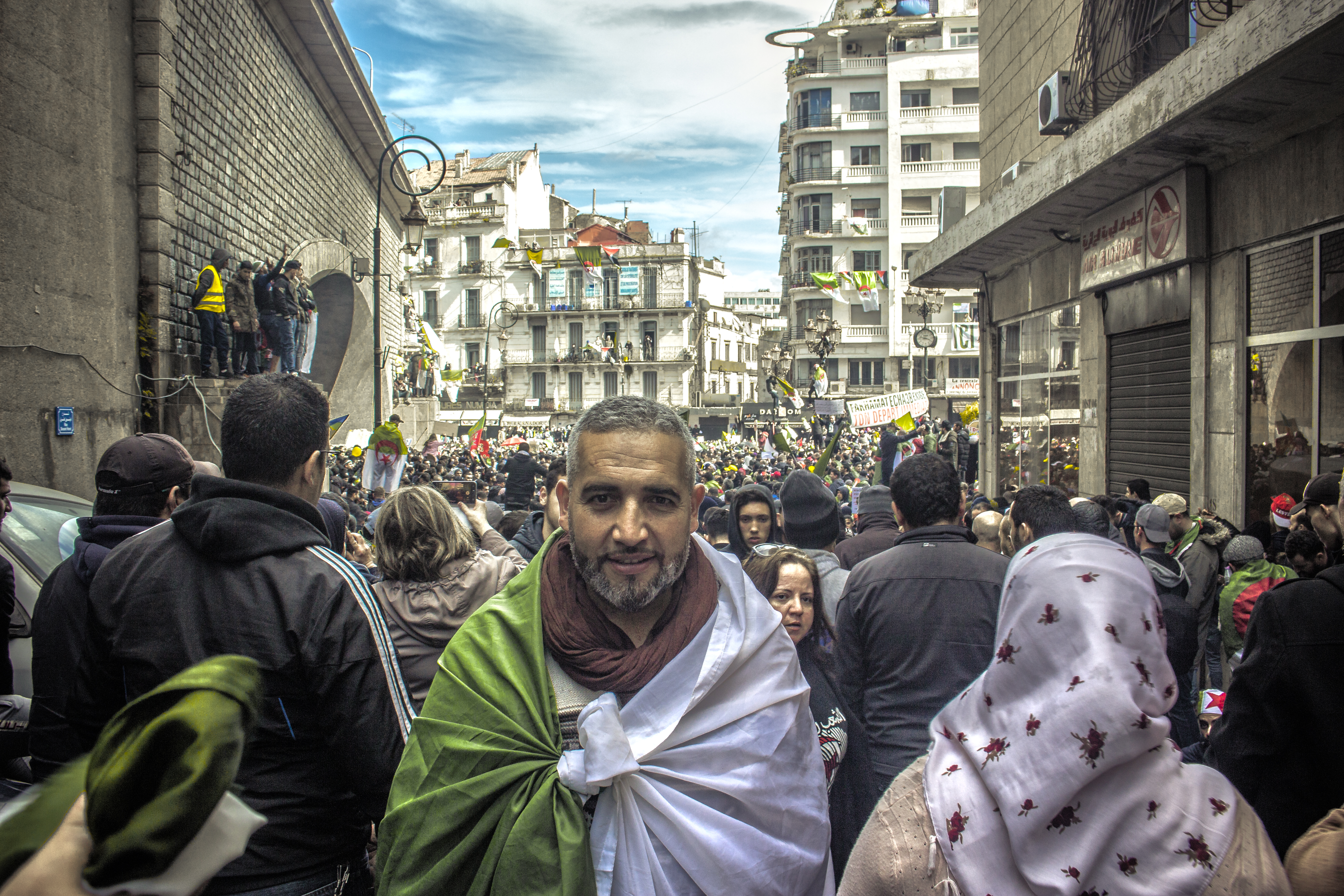 THE HIRAK IN ALGERIA This photo has been taken in the country: Algeria This is an image with the theme "Africa on the Move or Transport" from: Algeria